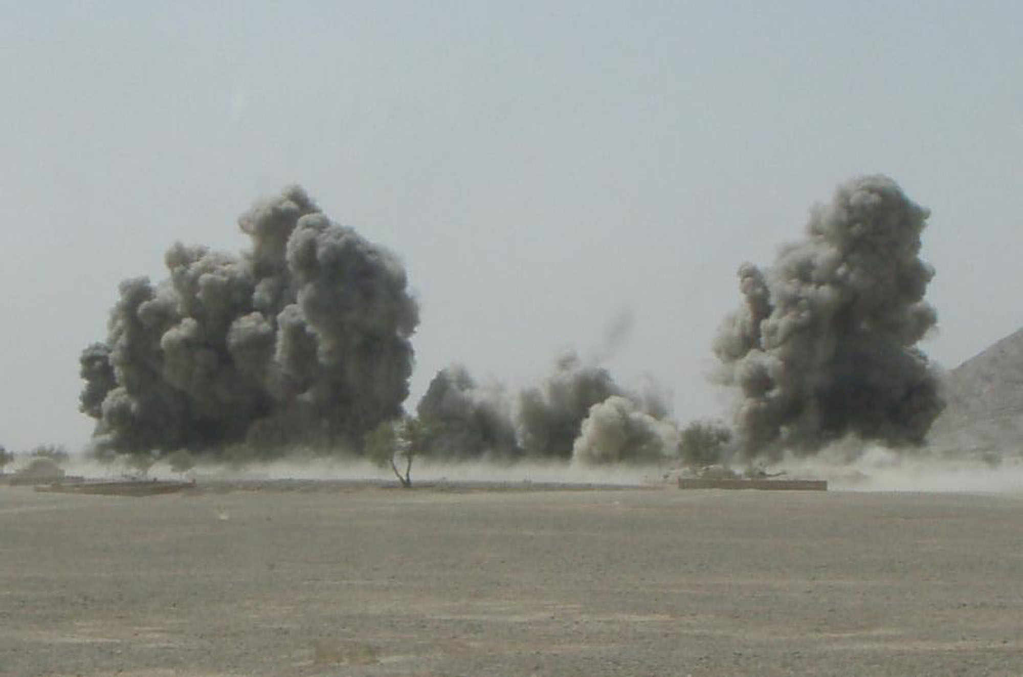 Smoke billows from a 500-pound bomb dropped during the intense battle for the city of Shewan. During the battle, Marine snipers attached to Task Force 2d Battalion, 7th Marine Regiment, Special Purpose Marine Air Ground Task Force Afghanistan, killed more than 50 insurgents and wounded several more.